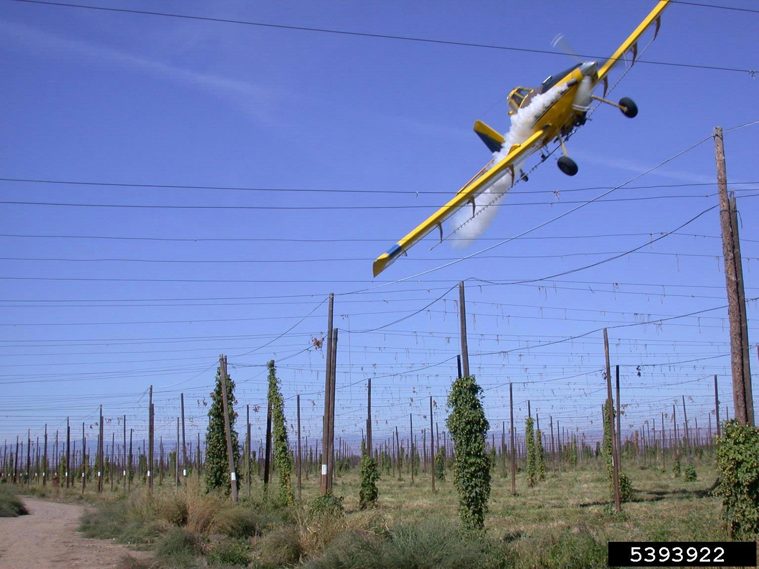 Aerial fungicide application to a common hop field against powdery mildew caused by Podosphaera macularis